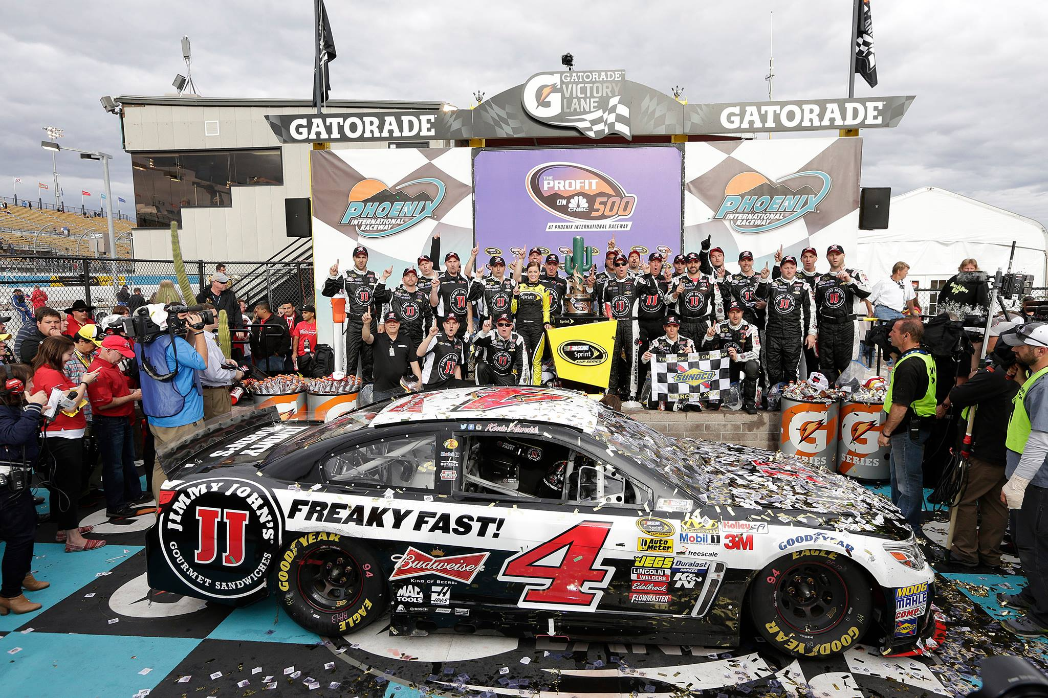 Kevin Harvick celebrating after 2014 win at Phoenix International Raceway.